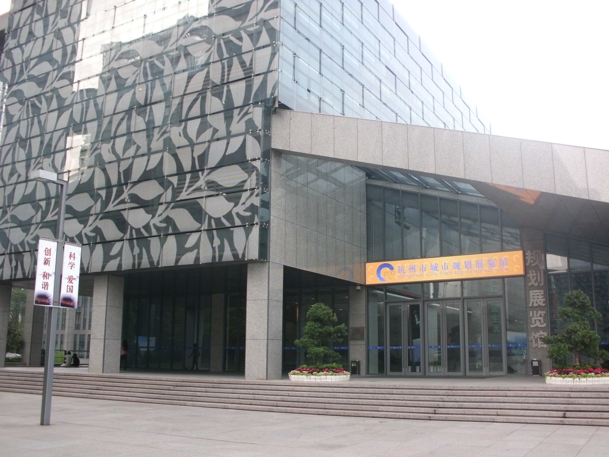 Hangzhou Urban Planning Exhibition Hall